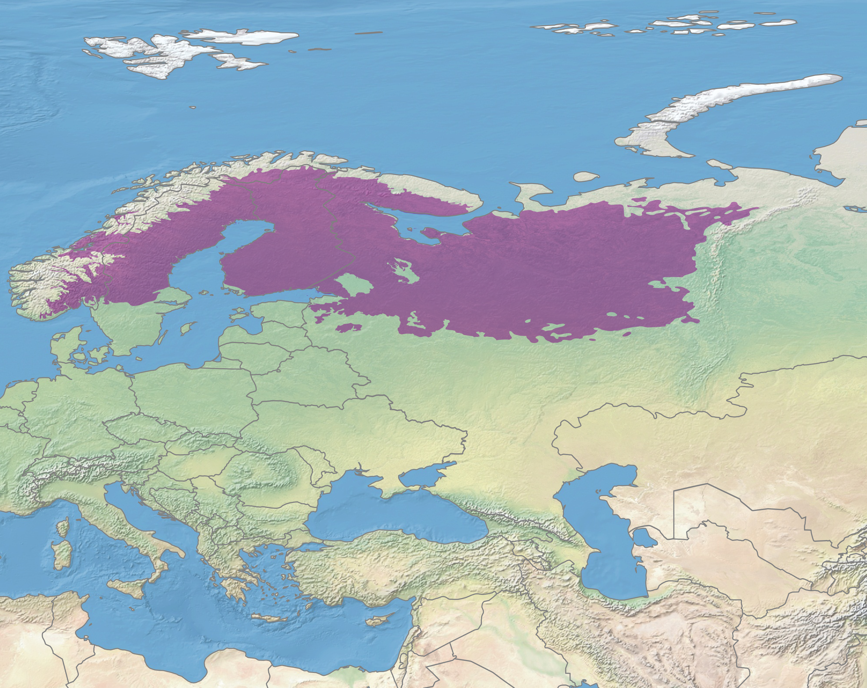 Ecoregion PA0608: Scandinavian and Russian taiga